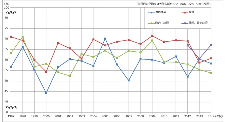 The graph of average score of Civics (National Center Test for University Admissions)